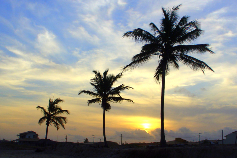 Sunset at Caueira beach, Itaporanga d'Ajuda, Sergipe, Brazil